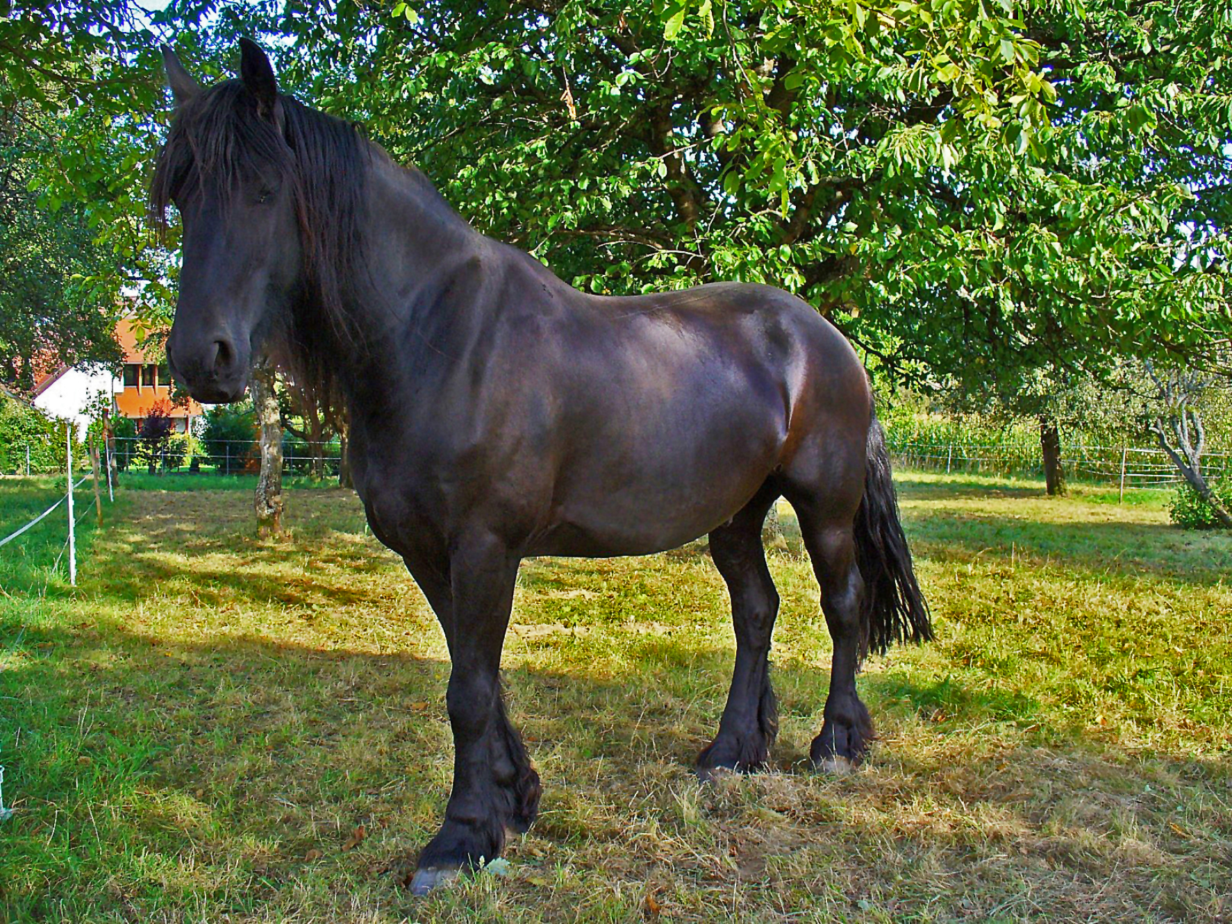 Equus ferus caballus, Equidae, Friesian Horse; Karlsruhe, Germany.